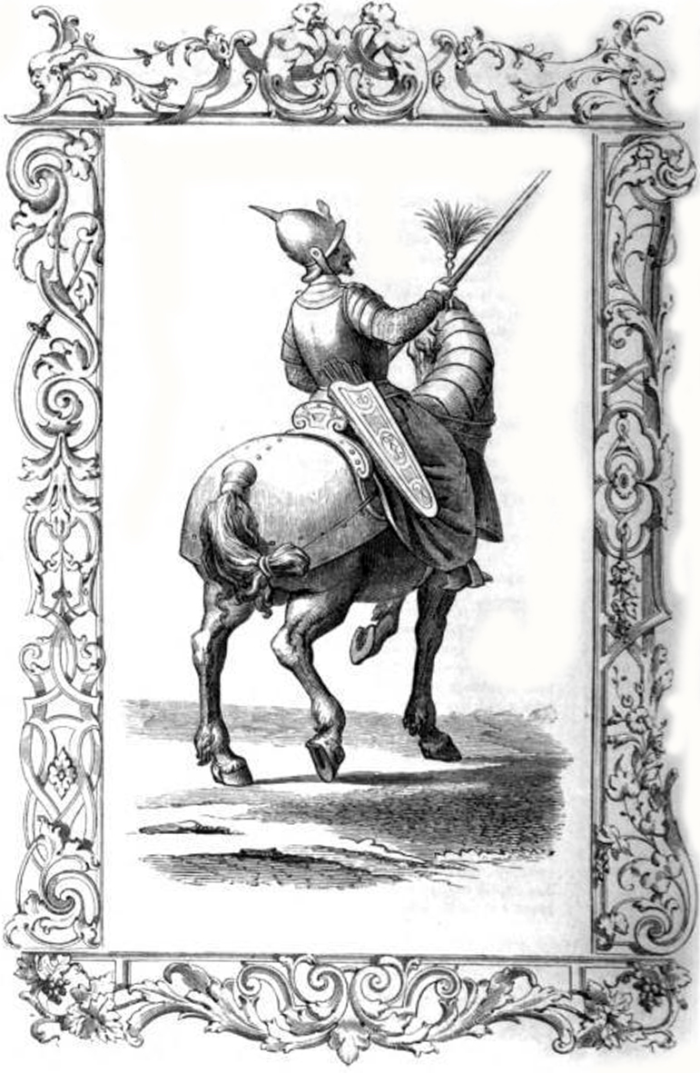 Beylerbey of Anatolia. Engraving by Cesare Vecellio.